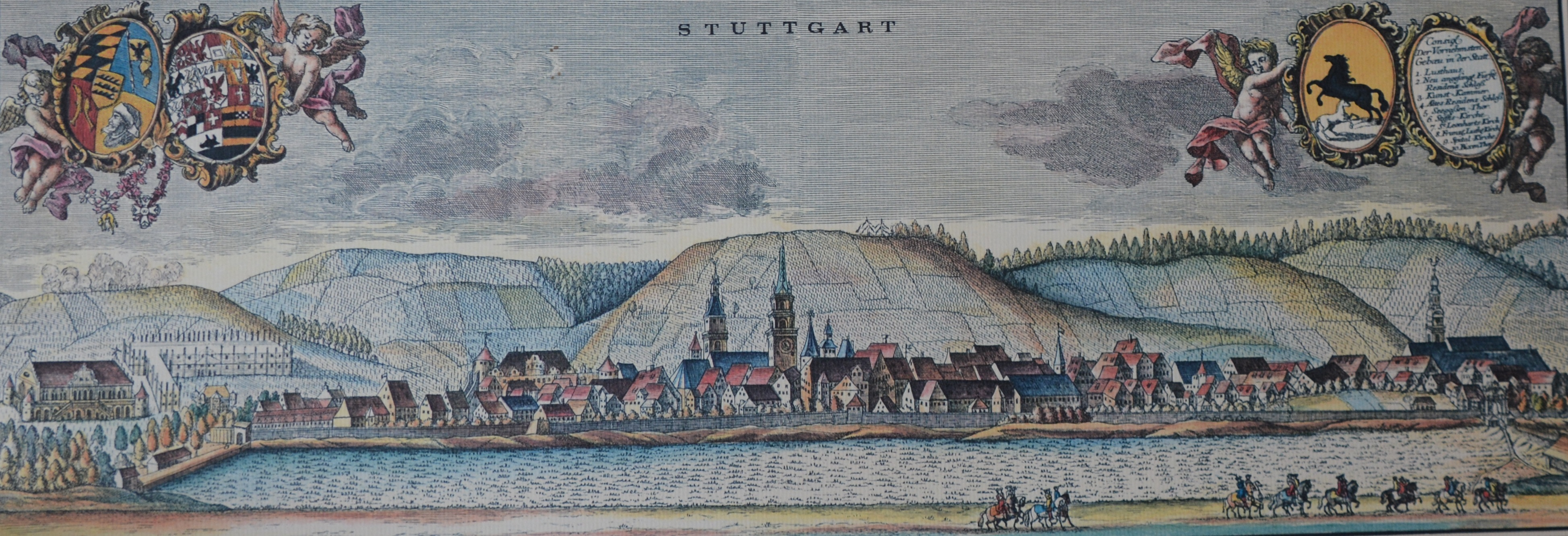 Stuttgart